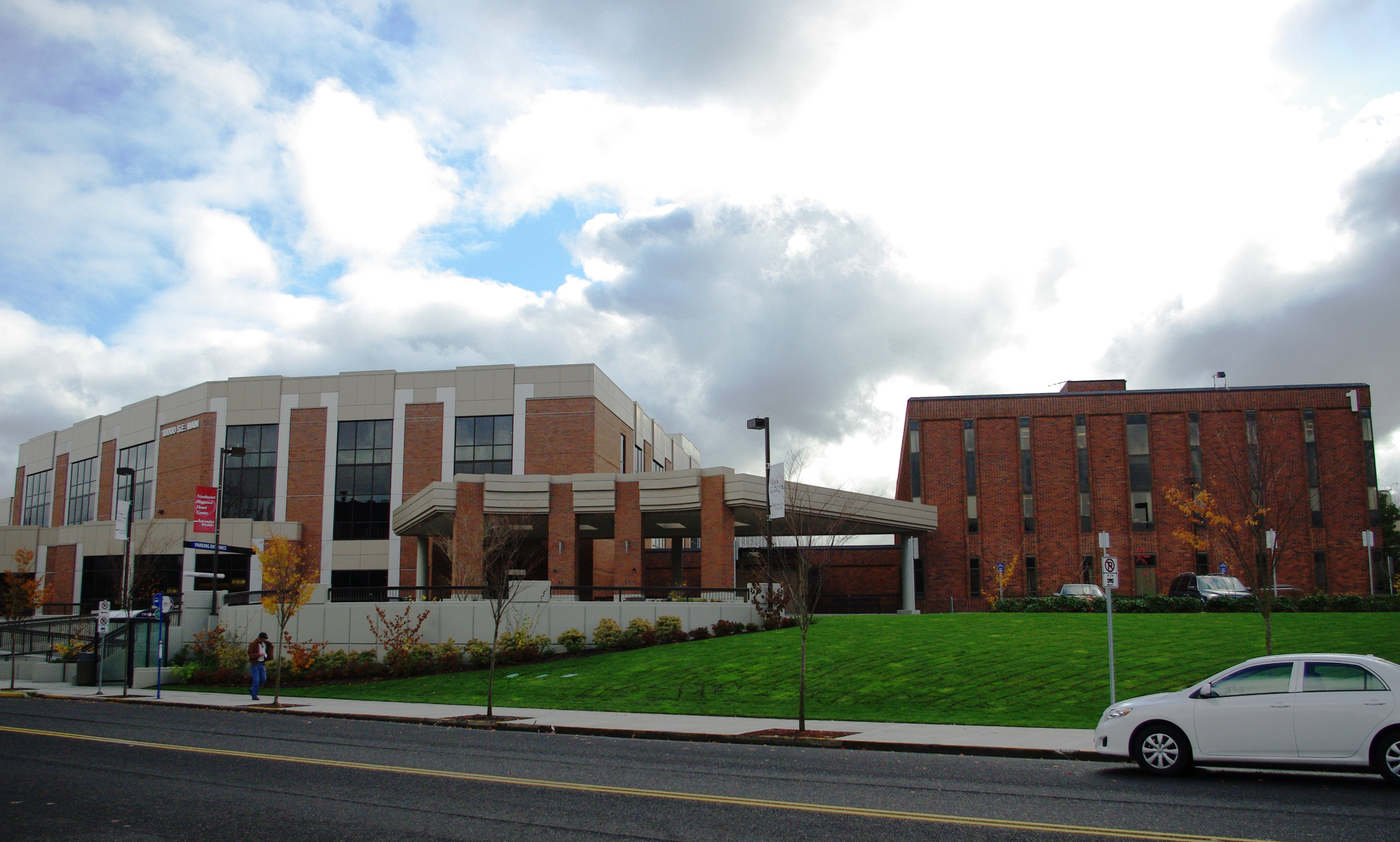 Adventist Medical Center in Portland, Oregon. Front entrance.